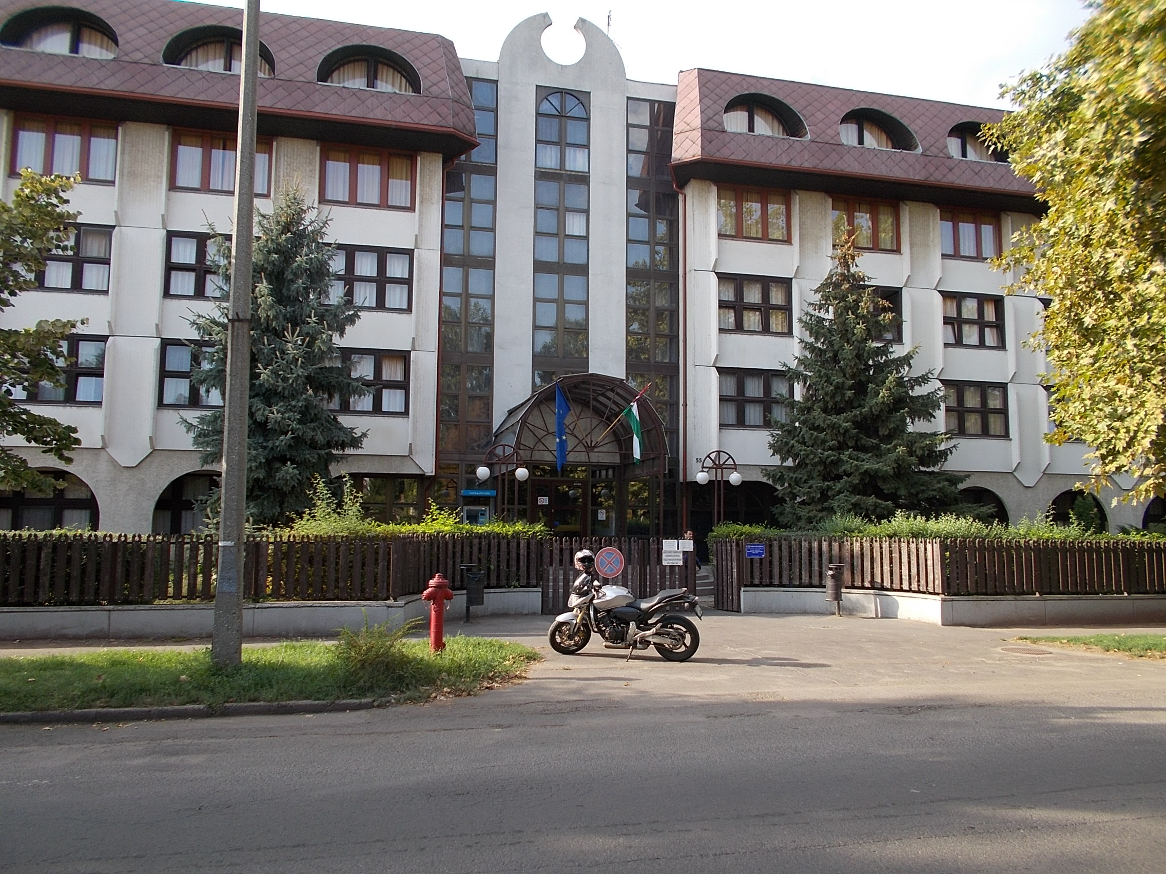 Szent István University. Faculty of Applied Humanities and Education. - Bajcsy-Zsilinszky E. Street, Jászberény, Hungary.